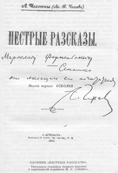 Cover of Chekhov's collected stories "Motley stories"